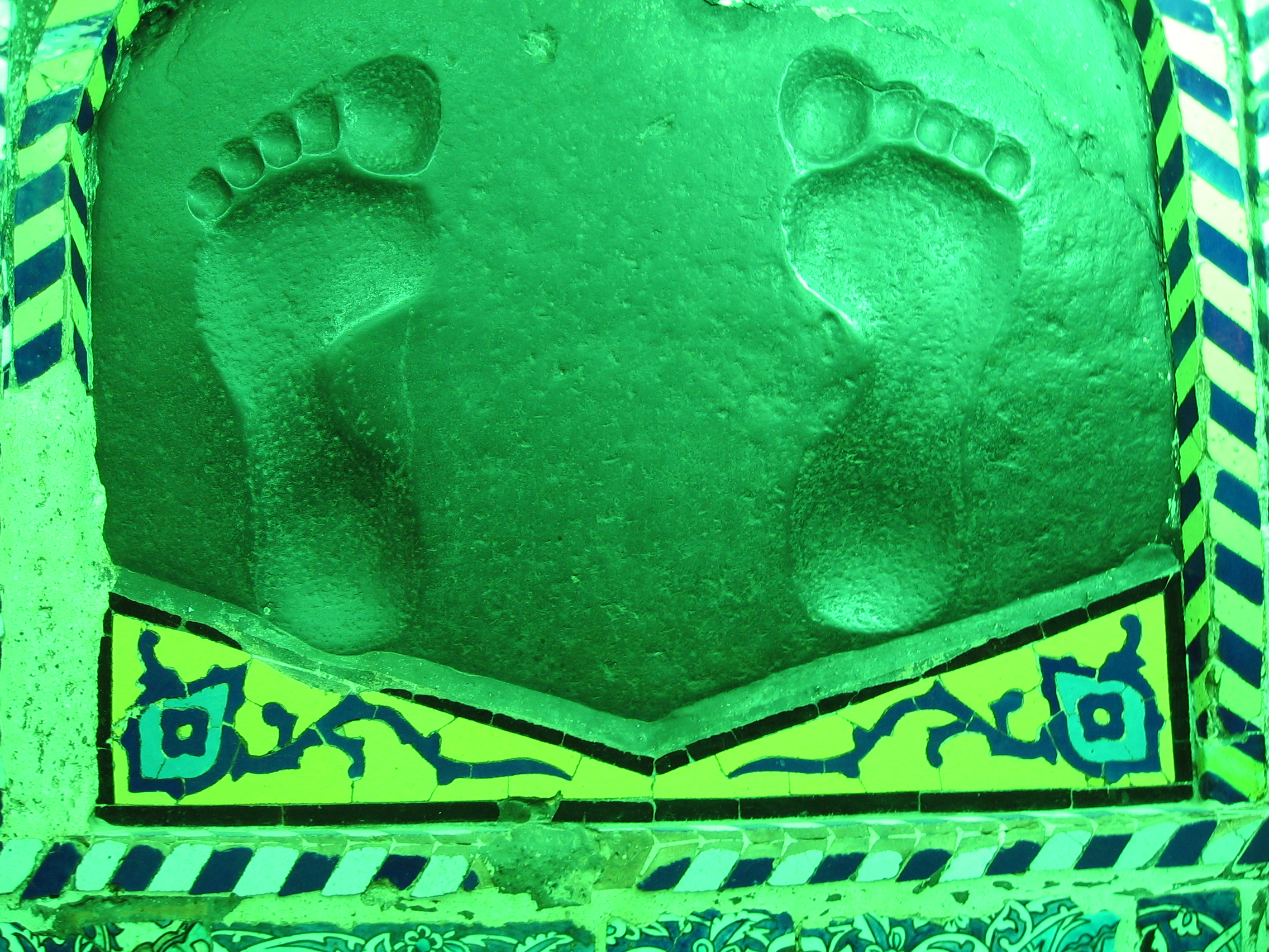 Blessed footprints of Imam Ali Reza (A.S.) in Qadamgah